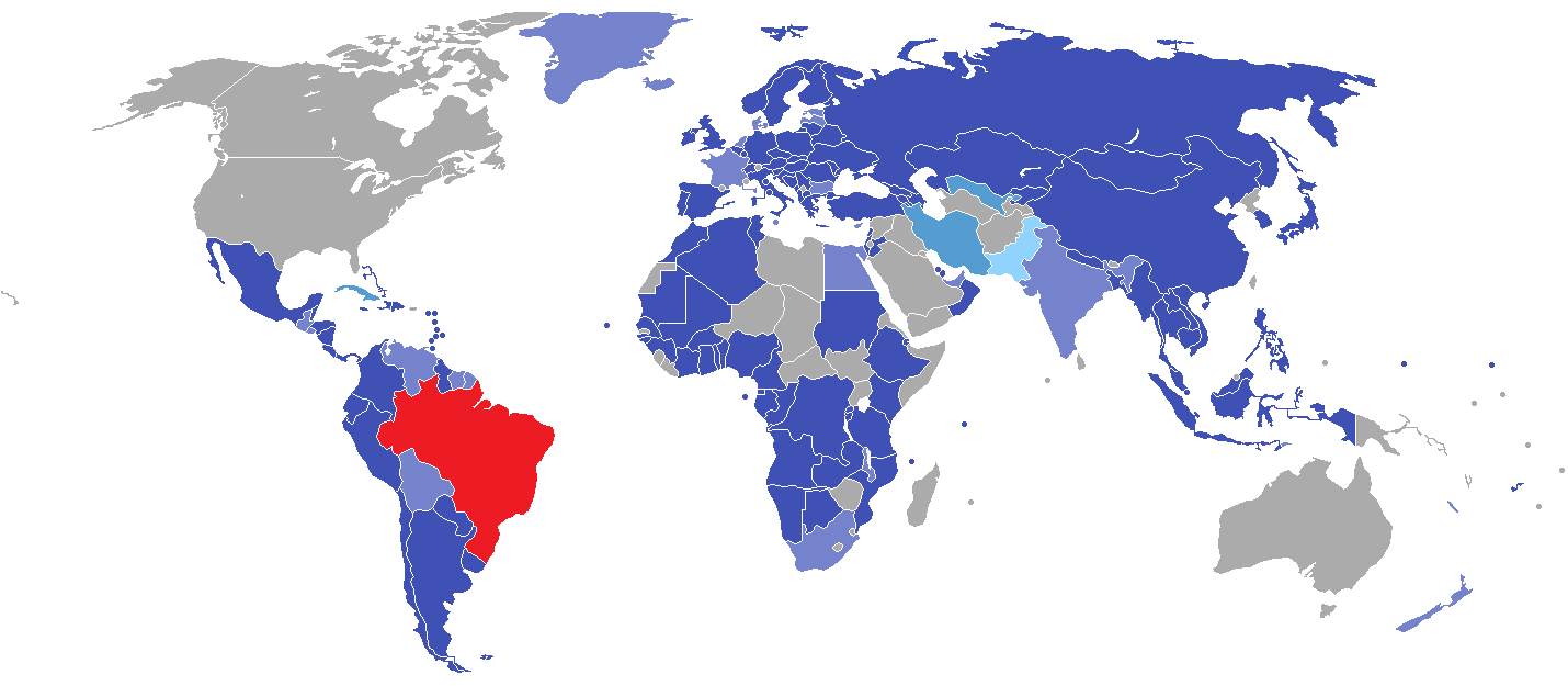 Visa policy of Brazil for holders of diplomatic or service category passports Brazil Visa free access for diplomatic and service category passports Visa free access for diplomatic passports